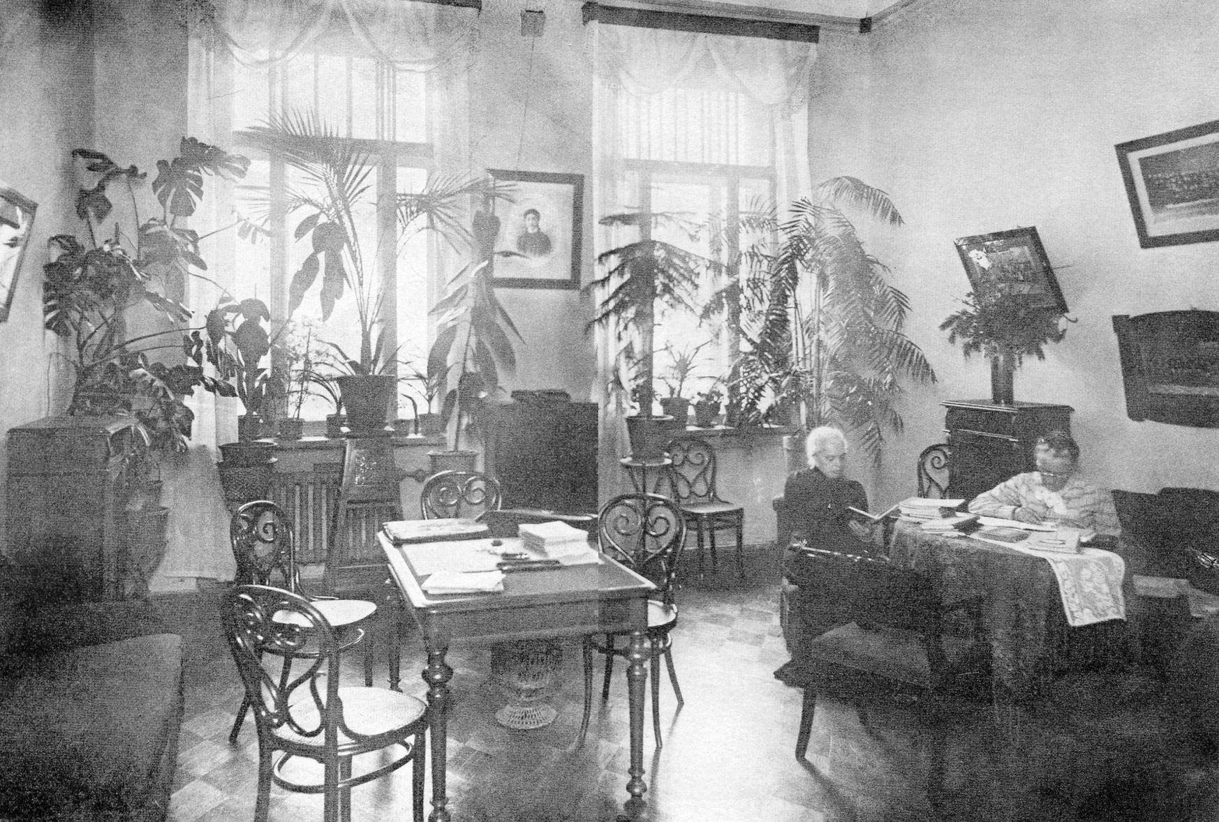 Teacher's room in the Alferov's gymnasium in Moscow